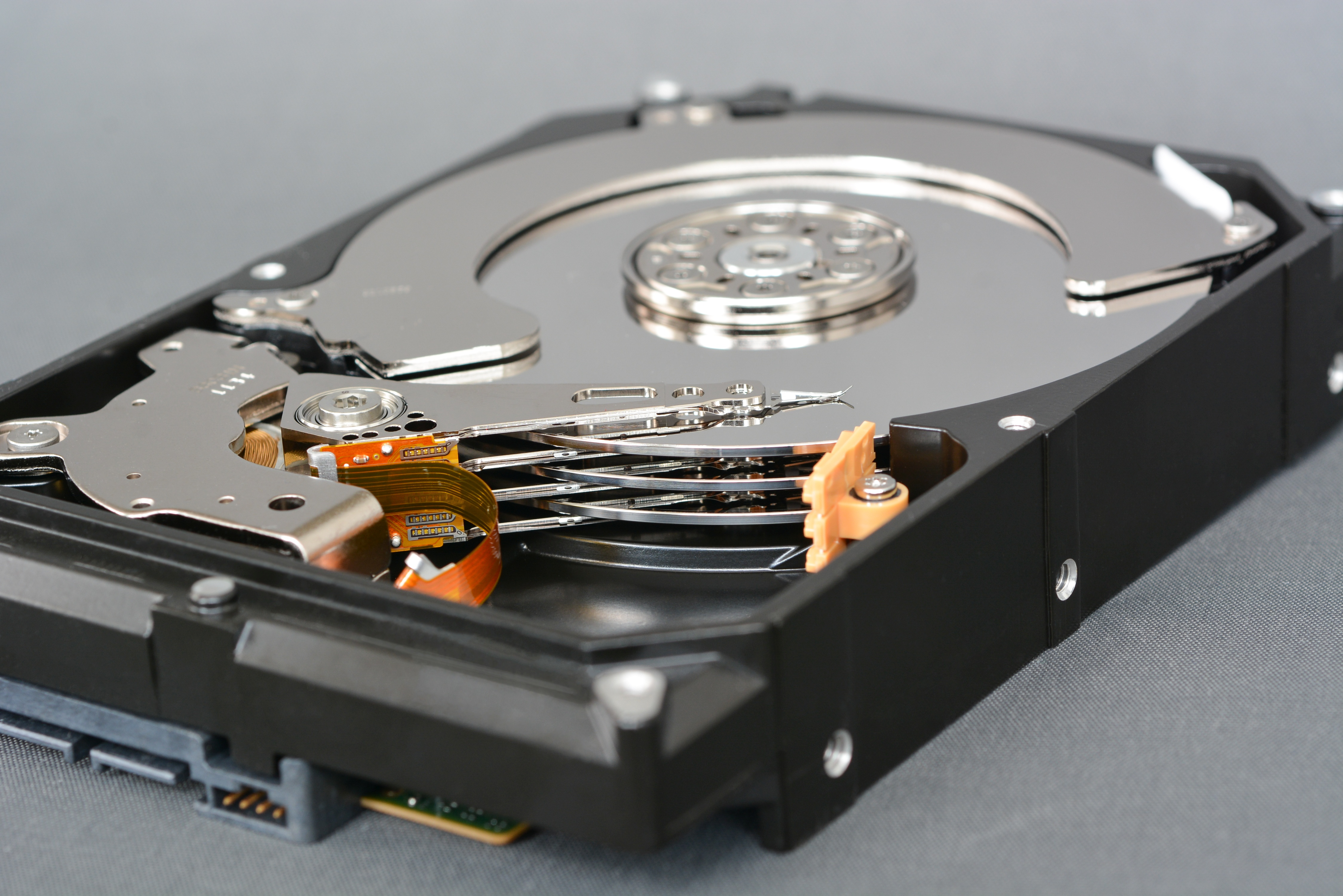 Hard disk Seagate Barracuda 1500GB, 3.5 inch, capacity 1.5 TB, built 2011